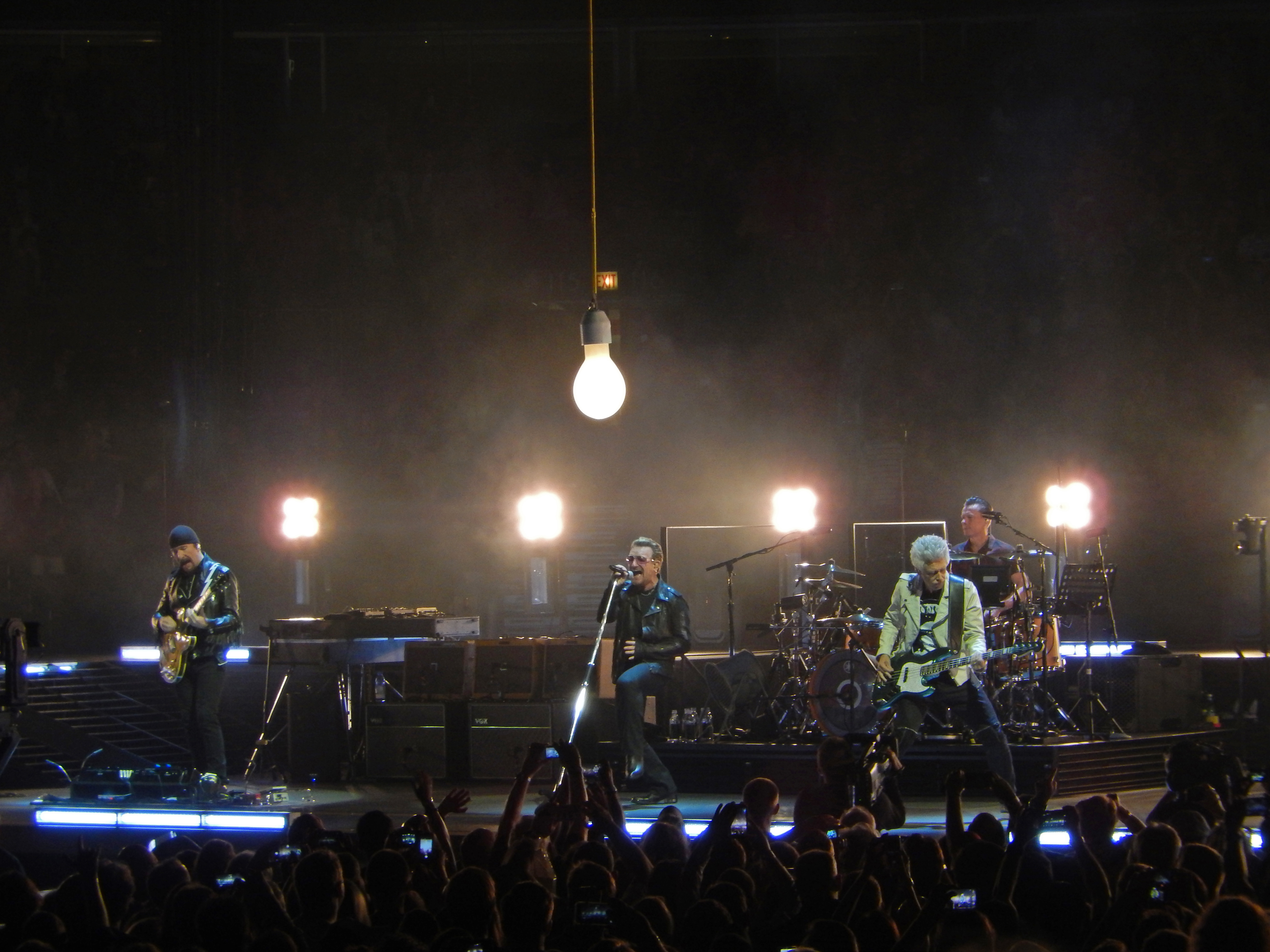 U2 performing under a light bulb during the opening of a show at the United Center in Chicago, IL on June 25, 2015 during the band's Innocence + Experience Tour